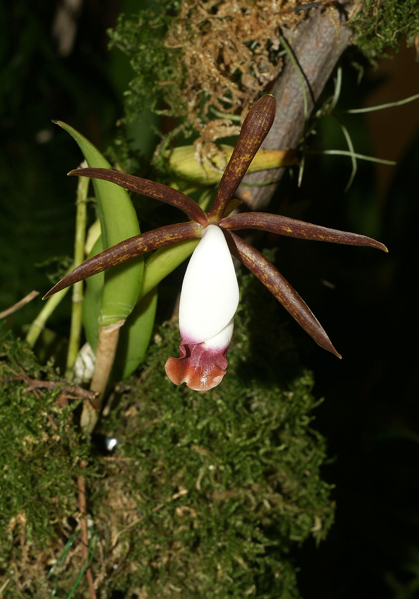 Cattleya araguaiensis